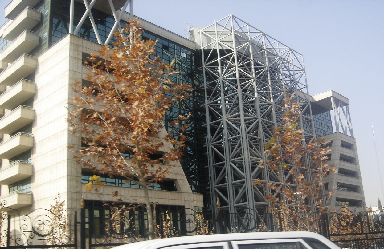 One of the buildings of Shiraz University of Medical Sciences, formerly The Red Crescent branch headquarters in Shiraz, Iran